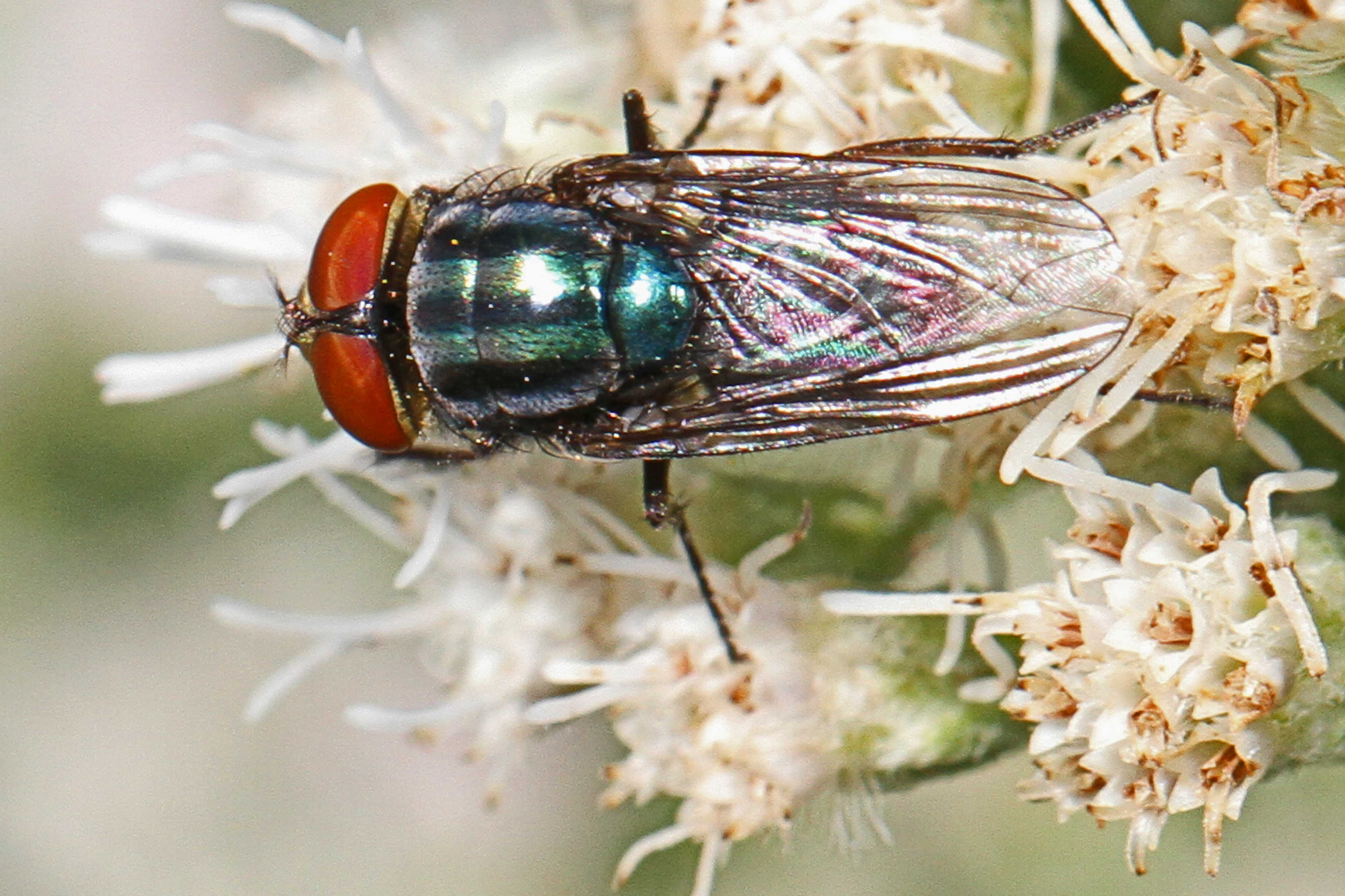 Secondary Screwworm - Cochliomyia macellaria, Meadowwood Farm SRMA, Mason Neck, Virginia